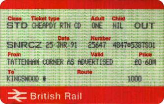 APTIS ticket showing the "SNRCZ" status code. Scanned from my own collection.